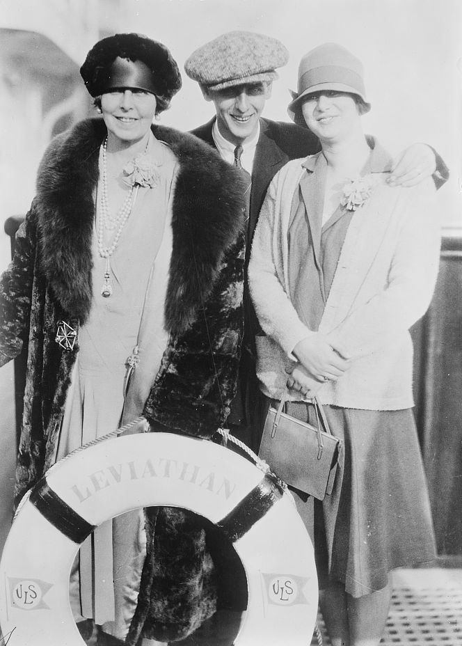 Queen Marie of Romania with children Prince Nicolae and Princess Ileana of Romania.